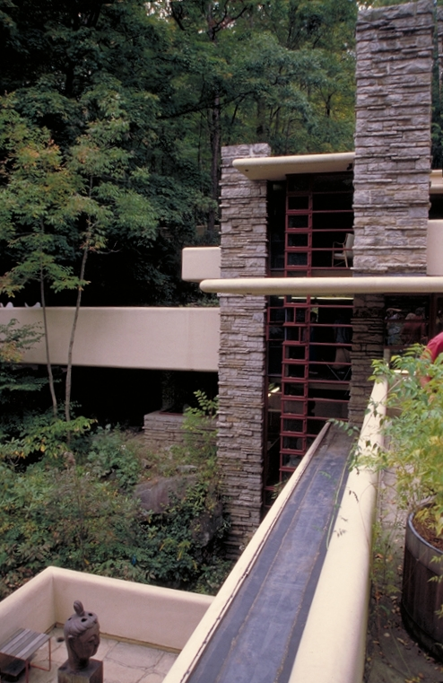 Eaves and artwork of Fallingwater.